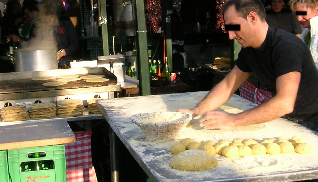 Making of masa for talo at Saint Thomas' fair, in Bilbao Arenal.